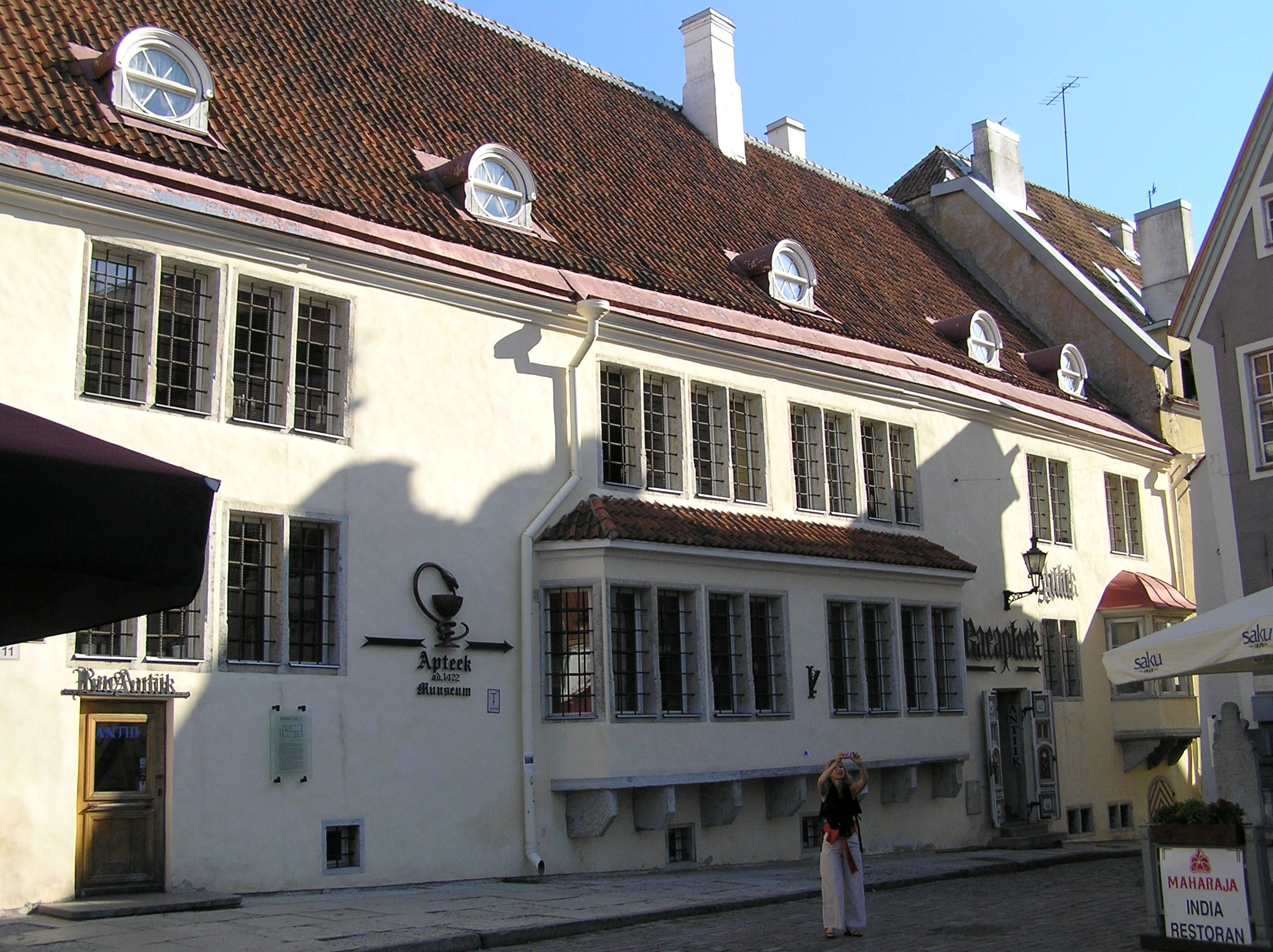 Town Hall Pharmacy